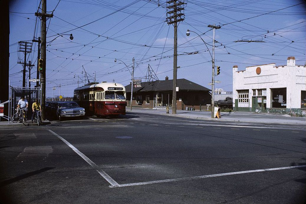 A PCC streetcar turning east from Keele Street on to St. Clair Avenue West, in Toronto, Ontario, Canada. The line terminated at a turning loop just north of this intersection.